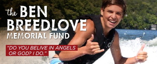 This photo/text is used for the Ben Breedlove Memorial Fund for Africa New Life.